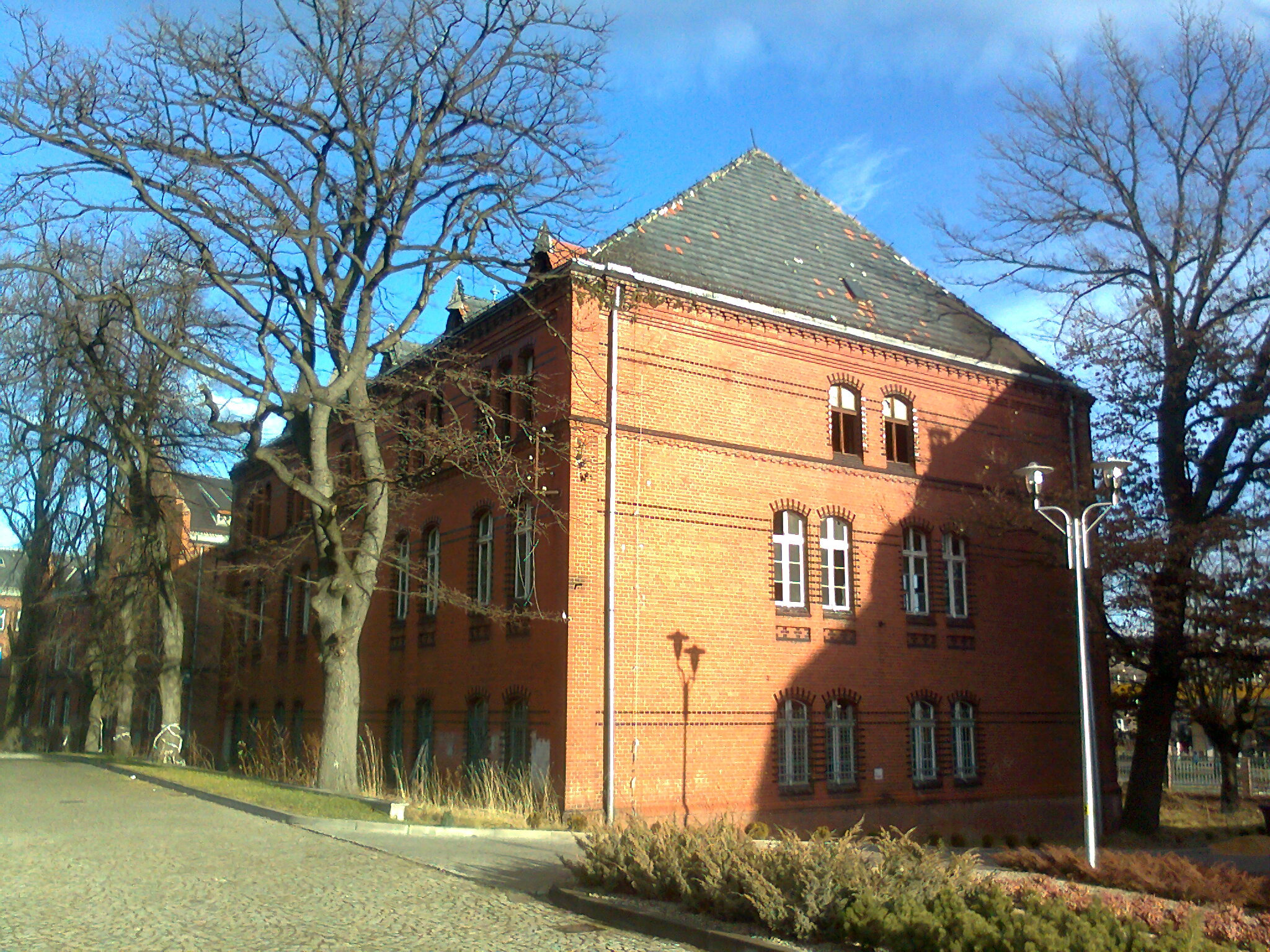 1 Legionów Street in Prudnik